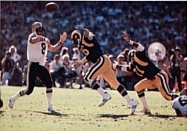 New Orleans Saints quarterback Archie Manning attempting a pass during a November 2, 1980 away game against the Los Angeles Rams. The card is numbered #25 in the set. The back of the card reads: 1980: A Great Year for Manning Archie Manning, the leading passer in the history of the New Orleans Saints, eludes Rams defensive tackle Cody Jones to rifle one of his 309 pass completions in 1980. That figure led the NFC, as did his total of 3,716 yards. Manning was also second in the conference in passing percentage that season, hitting a dazzling 60.7 percent.